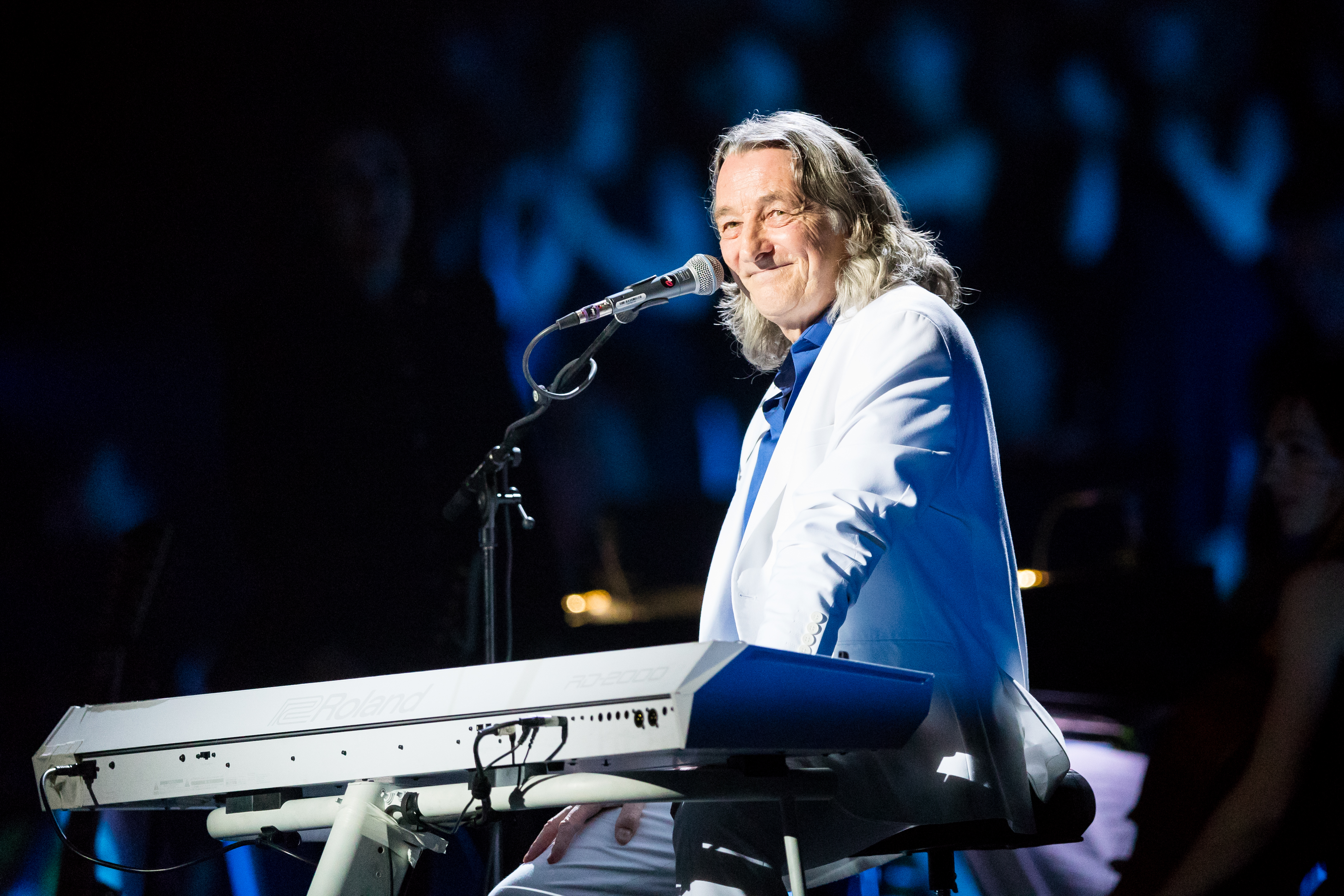 Roger Hodgson during Night of the Proms at SAP Arena, Mannheim, Baden-Württemberg, Germany on 2017-12-22, Photo: Sven Mandel